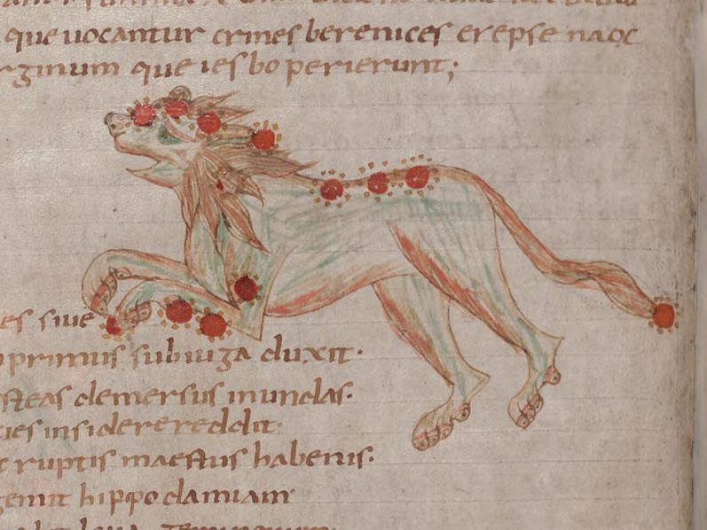 The oldest scientific manuscript in the National Library the volume contains various Latin texts on astronomy. The volume, written in Caroline minuscule, consists of two sections, the first (ff. 1-26) copied c. 1000, in the Limoges area of France, probably in the milieu of Adémar de Chabannes (989-1034), whilst the second (ff. 27-50), from a scriptorium in the same region, may be dated c. 1150.